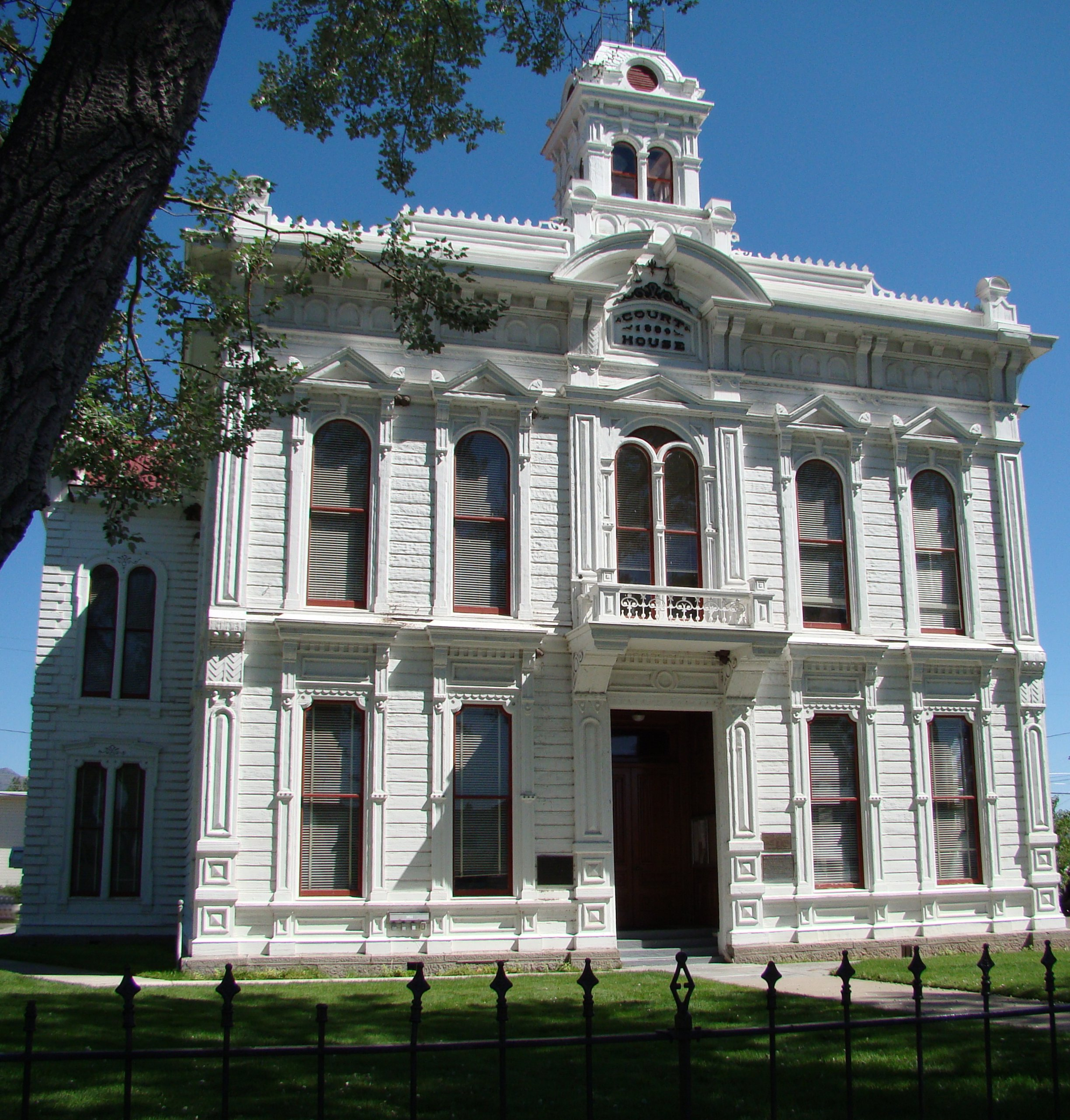 The Mono County Courthouse in Bridgeport, Mono County, eastern California. The courthouse was built in 1880 in the Victorian Italianate style, and is on the National Register of Historic Places.